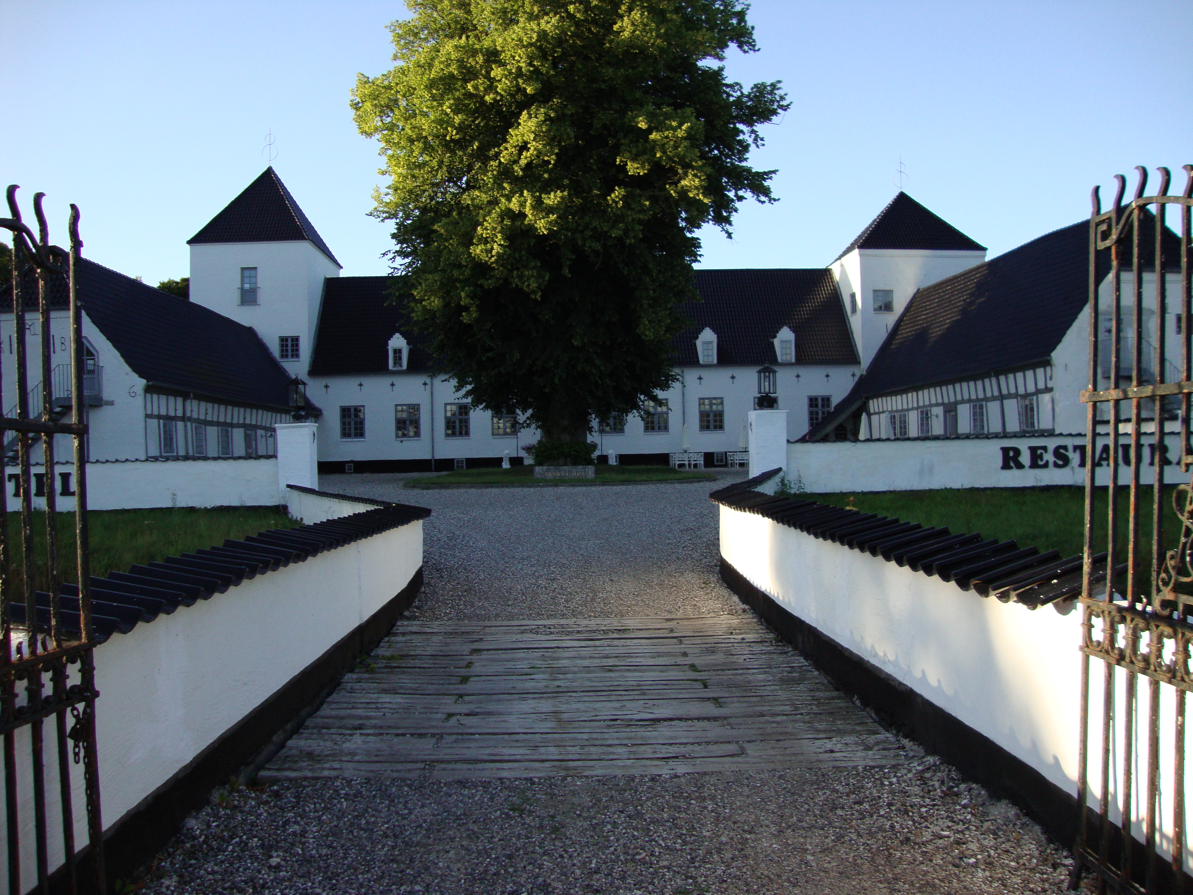 Gammel Vraa Slot, Kjær Herred, Vendsyssel, Aalborg Kommune. Presently hotel and restaurant. Photo taken from the south.